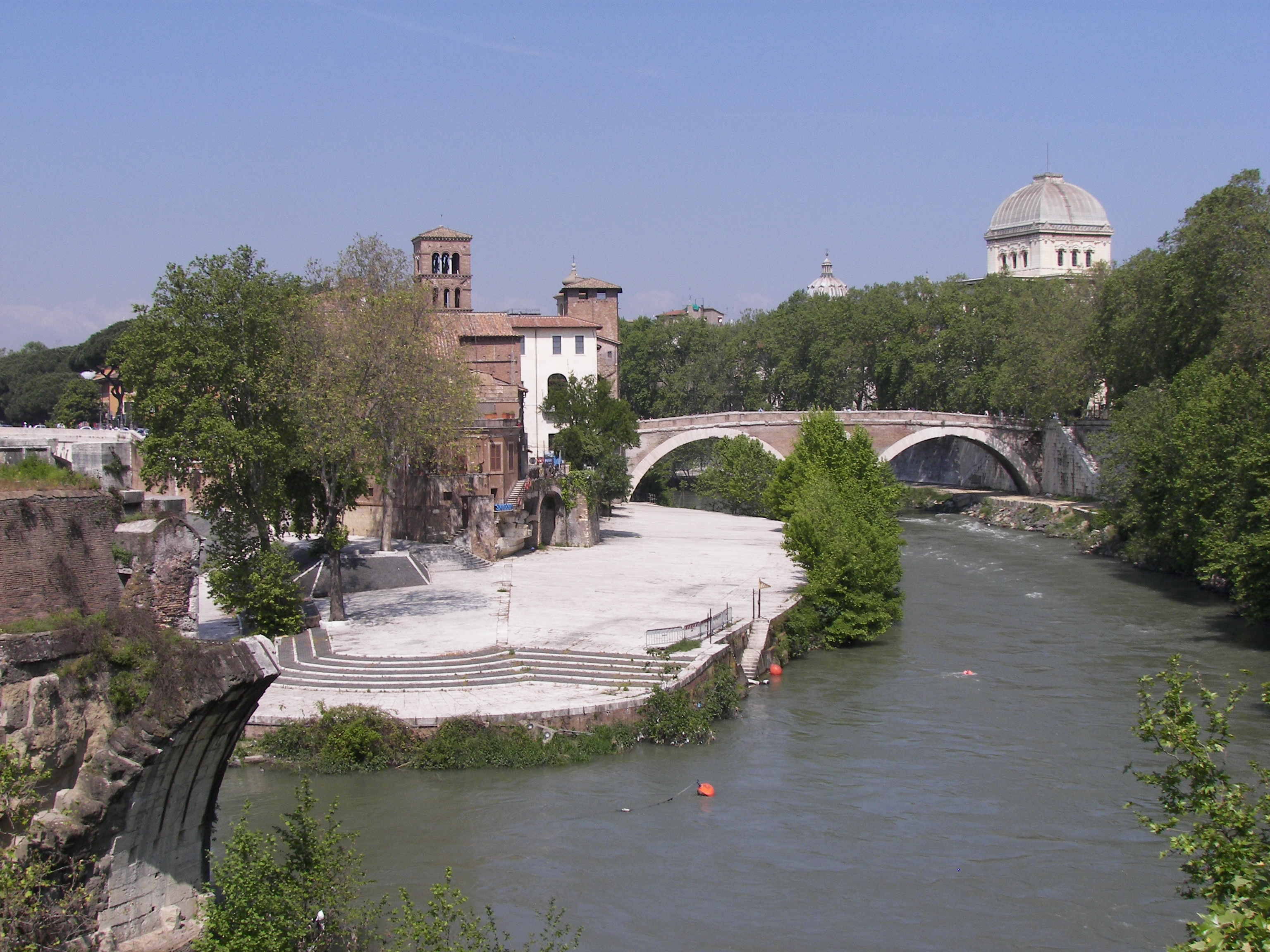 Southeast tip of Isola Tiberina taken from the Ponte Palatino with Ponte Quattro Capi connecting to the right and the tower of San Bartolomeo all'Isola in the center-left. Ponte Rotto is in the far-left foreground.